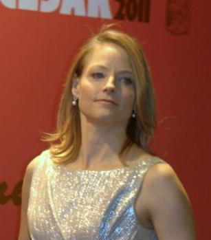 Cropped version of free-licensed image on Commons.